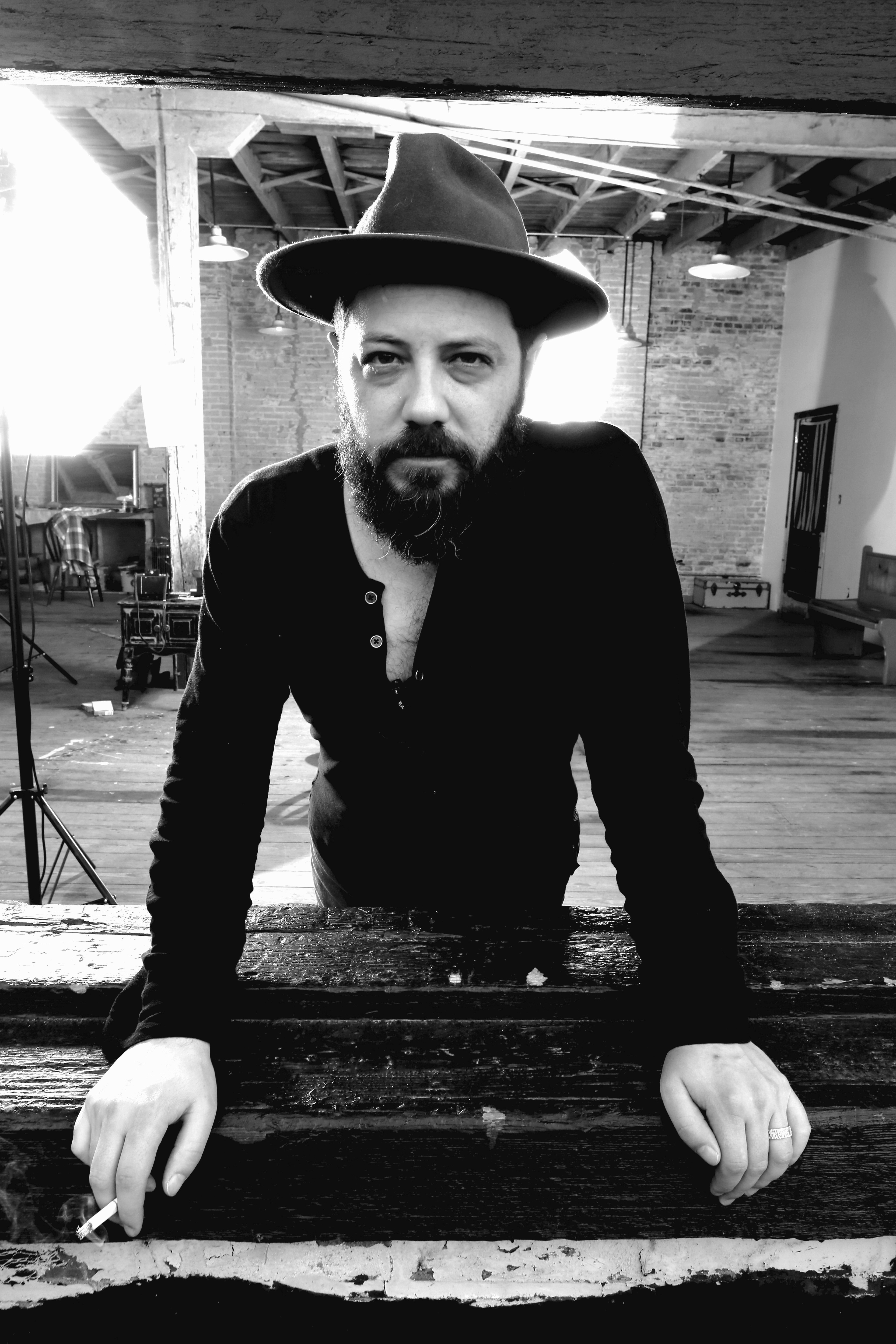 Roger Hoover in St. Louis. Photograph by Nate Burrell